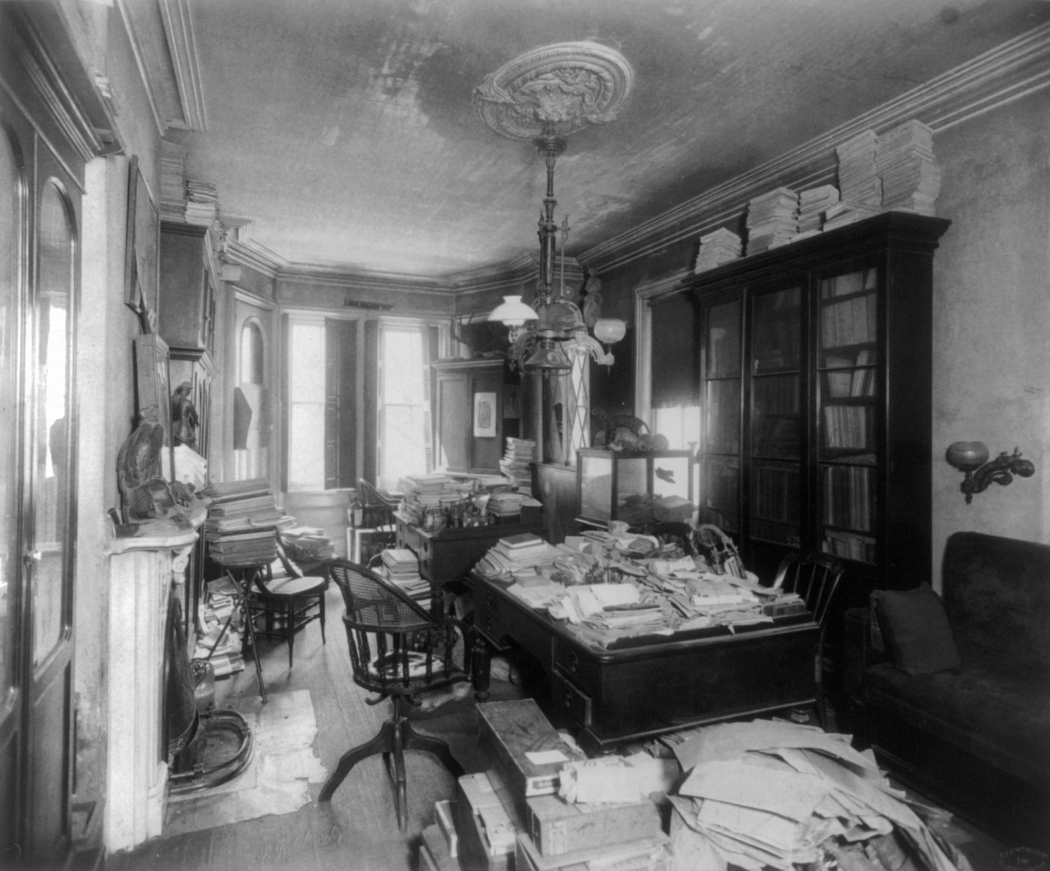 Cluttered study of American zoologist Edward Drinker Cope (1840-1897)